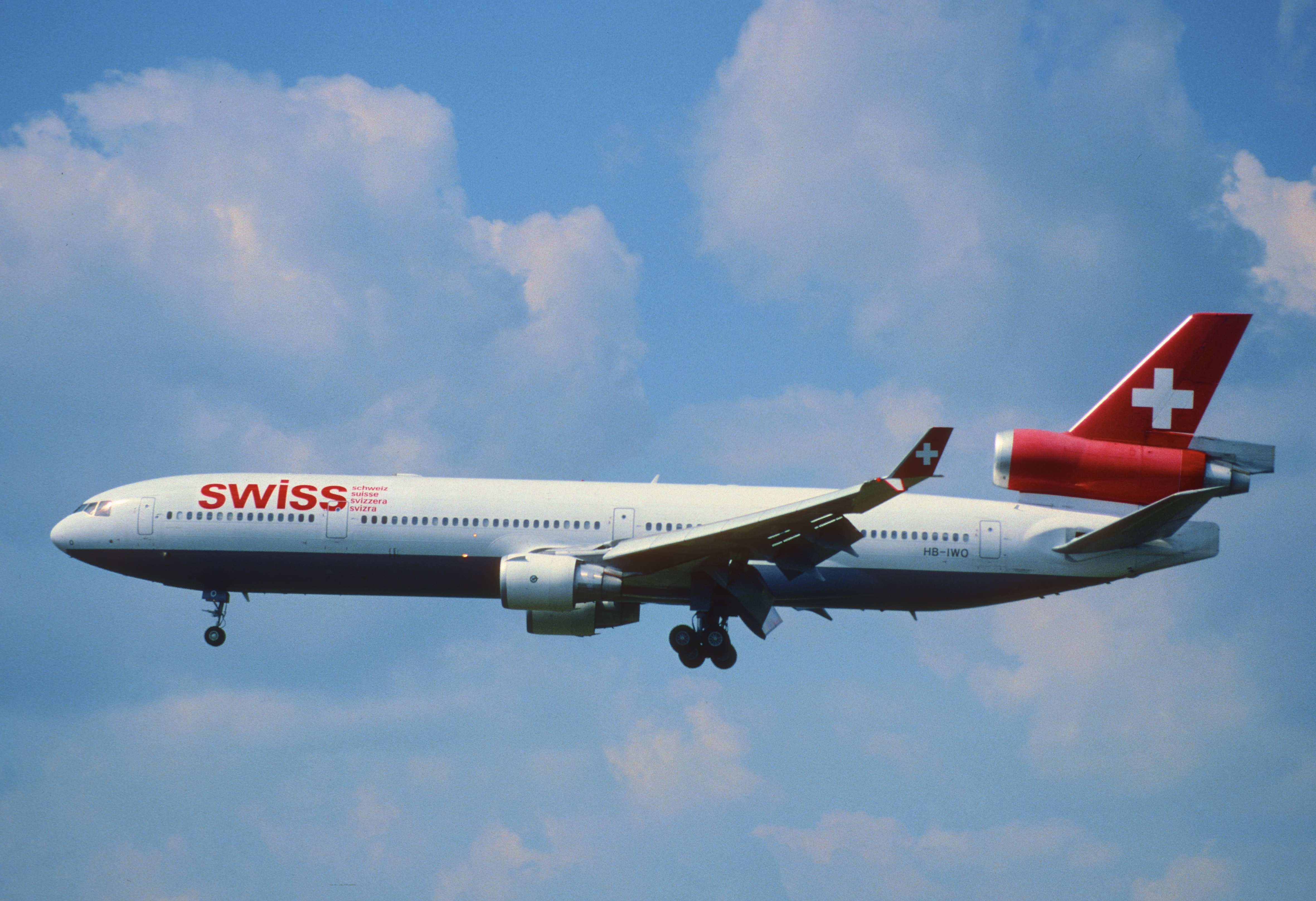 c/n 48540/ 611 11/03/1997 Swissair HB-IWO 31/03/2002 Swiss International Airlines HB-IWO stored at Zurich 01/08/2004 Varig PP-VTK last Varig flight 03/01/07 15/02/2007 UPS N288UP